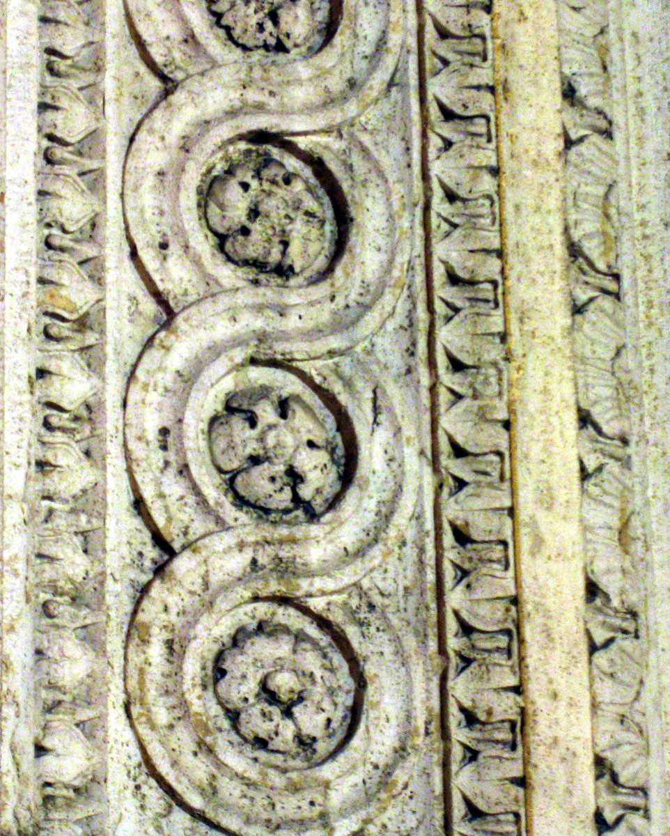 Detail, portone of s salvatore in lauro. My eye was caught by the almost Celtic swirls of the carving.